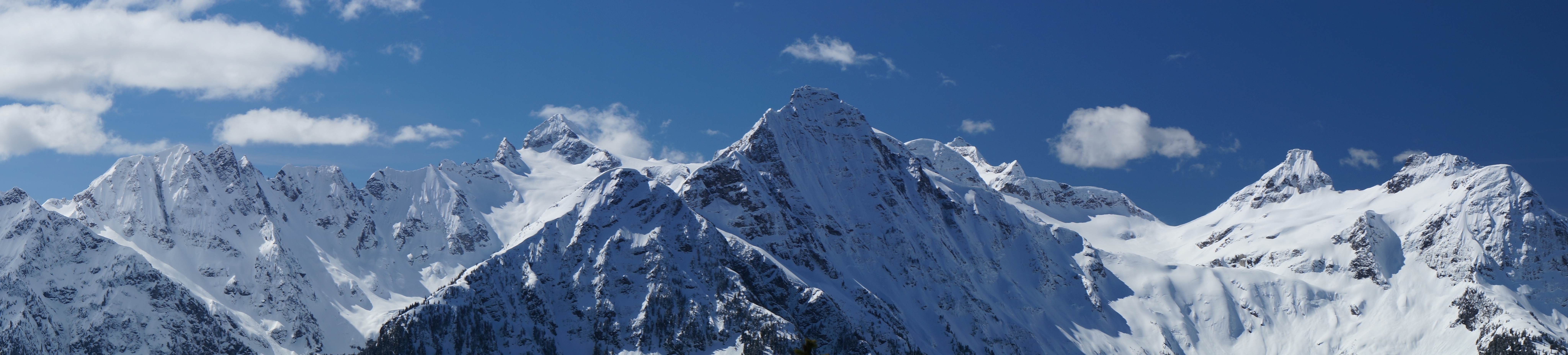 Colonial Peak from Ruby Mountain with annotations for other peaks. North Cascades of WA